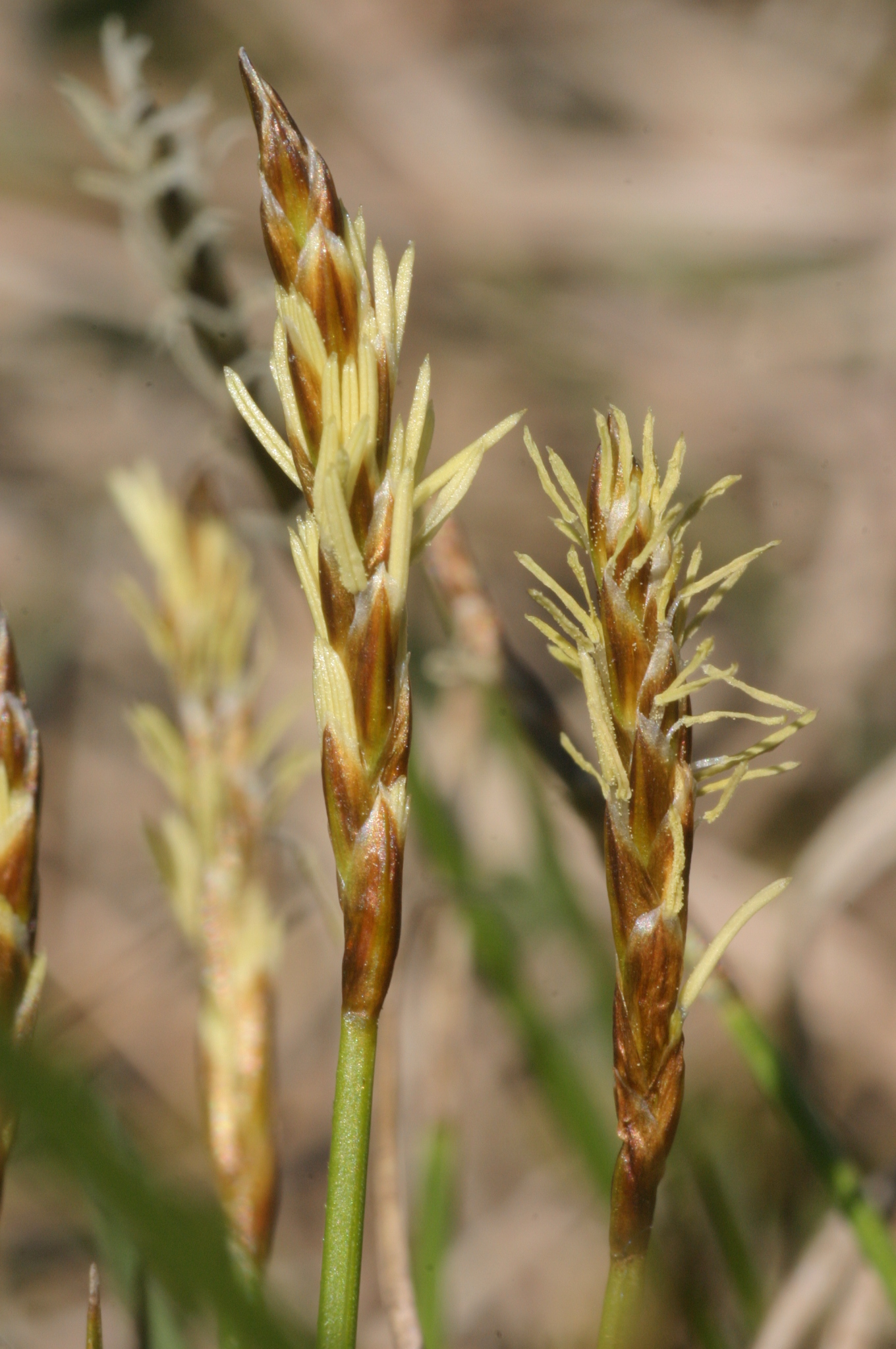 Carex davalliana